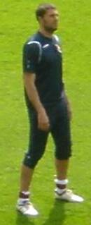 West Ham's Diego Tristán in pre-match training before game at Villa Park against Aston Villa on 18 April 2009.